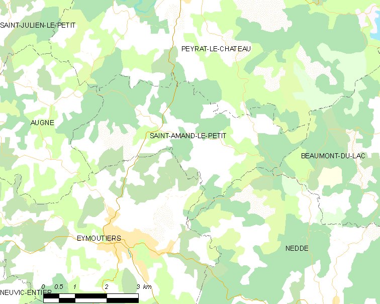 Map of French municipality Saint-Amand-le-Petit